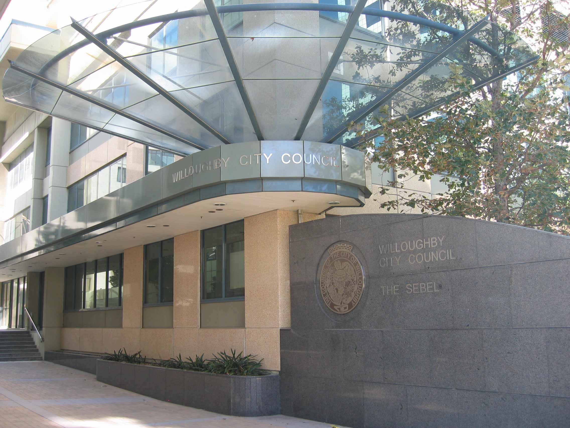 Willoughby City Council chambers, Chatswood, New South Wales, Australia. Taken 2005-04-06.